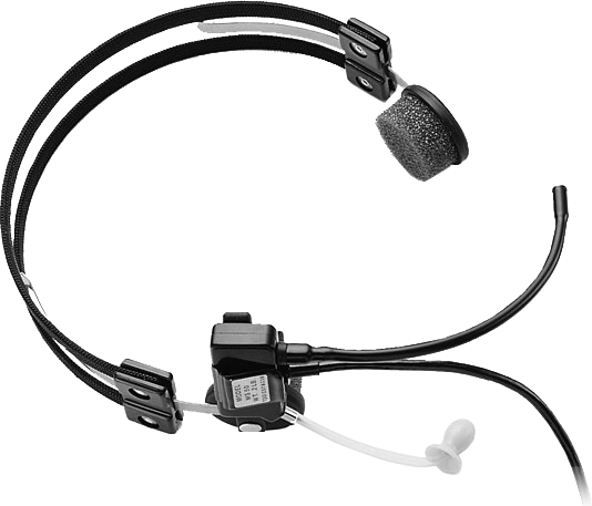 Le MS 50 de Plantronics